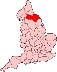 North riding of Yorkshire in 1965